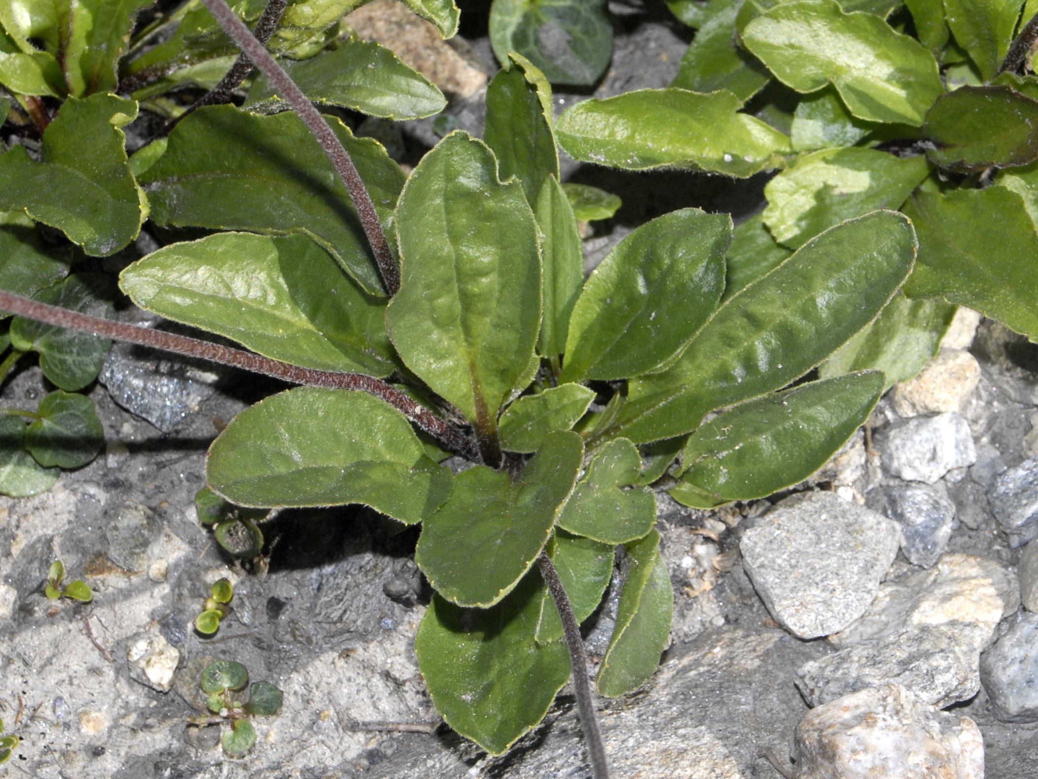 Plant of Aster bellidiastrum at the Giardino Botanico Alpino Chanousia